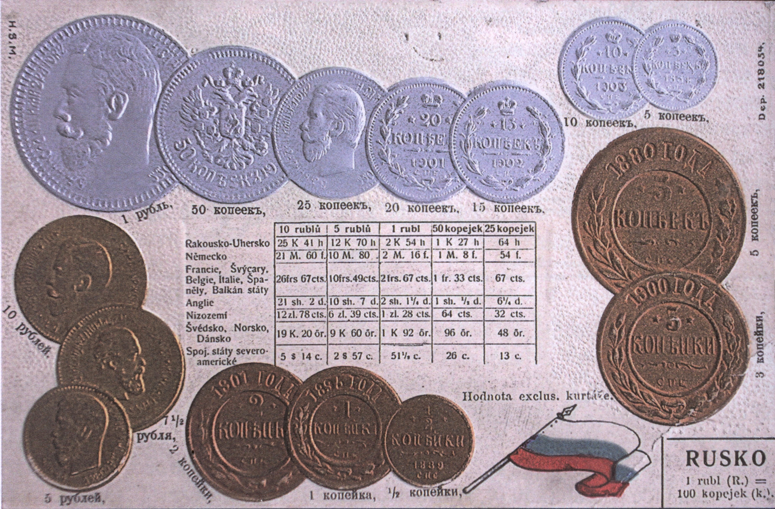 Postcard with Russian Empire coins. «Coins of Main Countries» series.